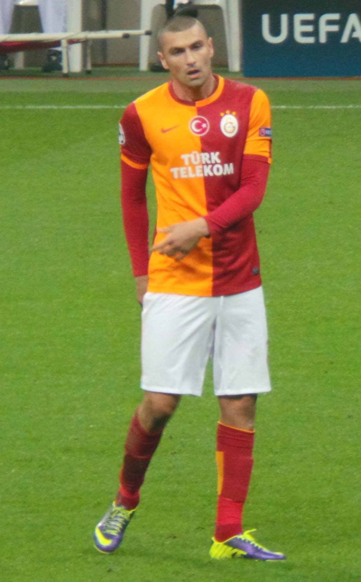 Burak Yılmaz'13-14